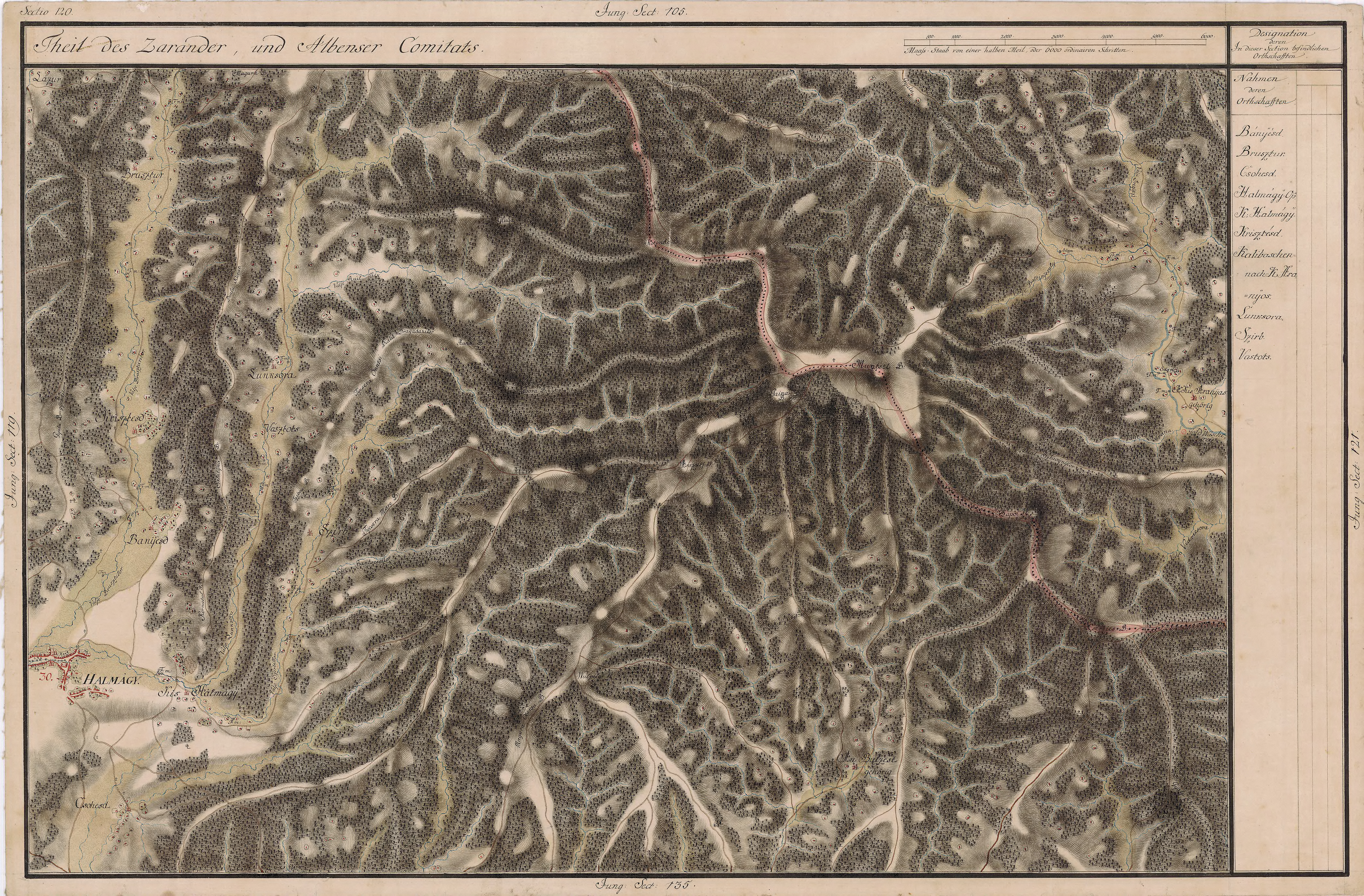 Grand Duchy of Transylvania, 1769-1773. Josephinische Landaufnahme pg.120